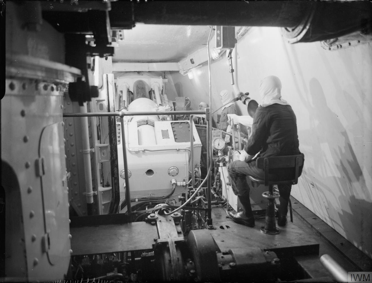 Insided one of the 14-inch gun turrets of HMS King George V, looking forward from the gunloading cage.